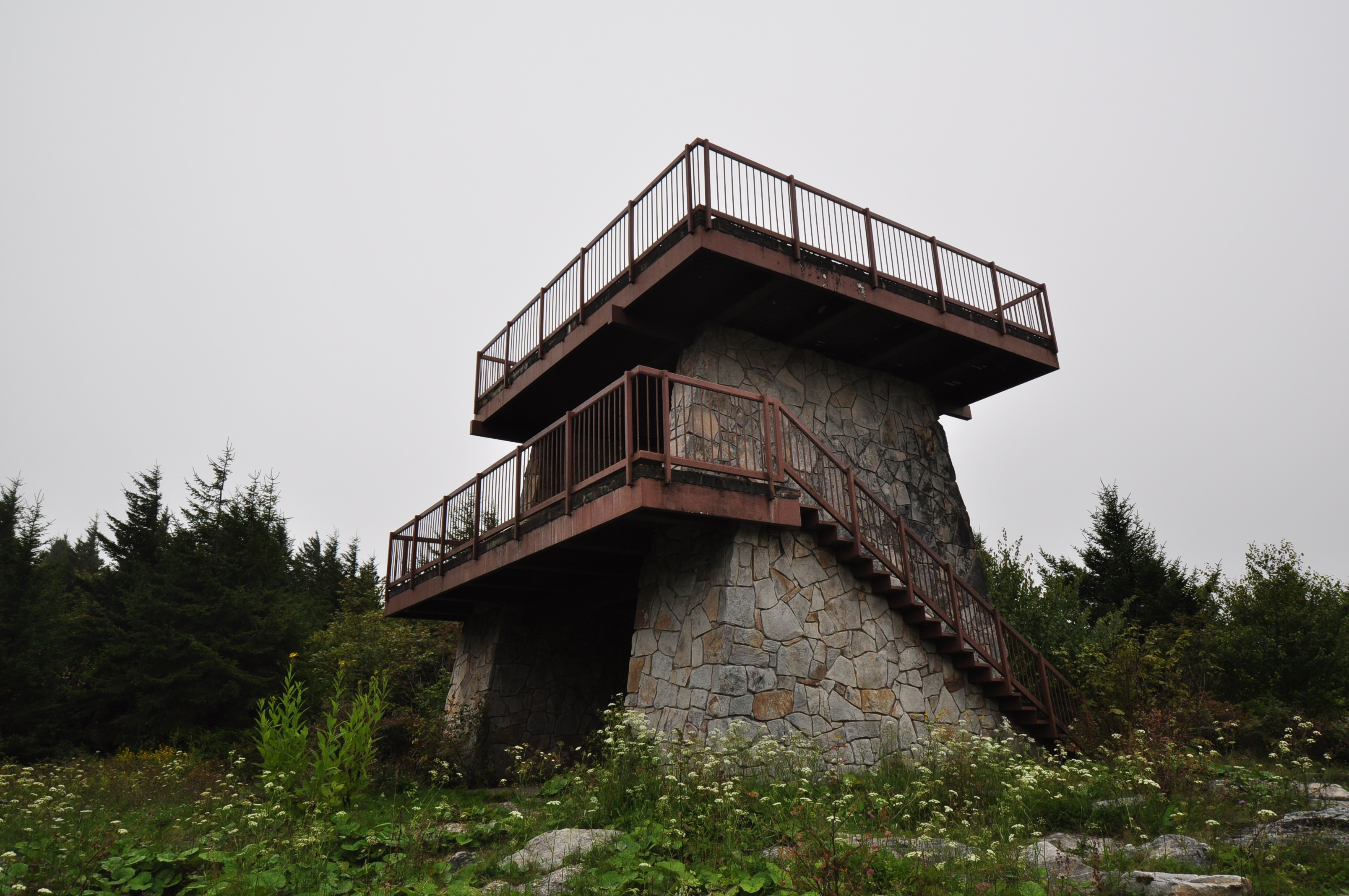 The lookout tower a top Spruce Knob, West Virginia.